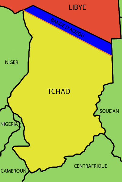 a french version of Image:Map_of_Aouzou_stip_chadblank.png from the english version made by Astrokey44 Image:Map of Aouzou stip chad.PNG